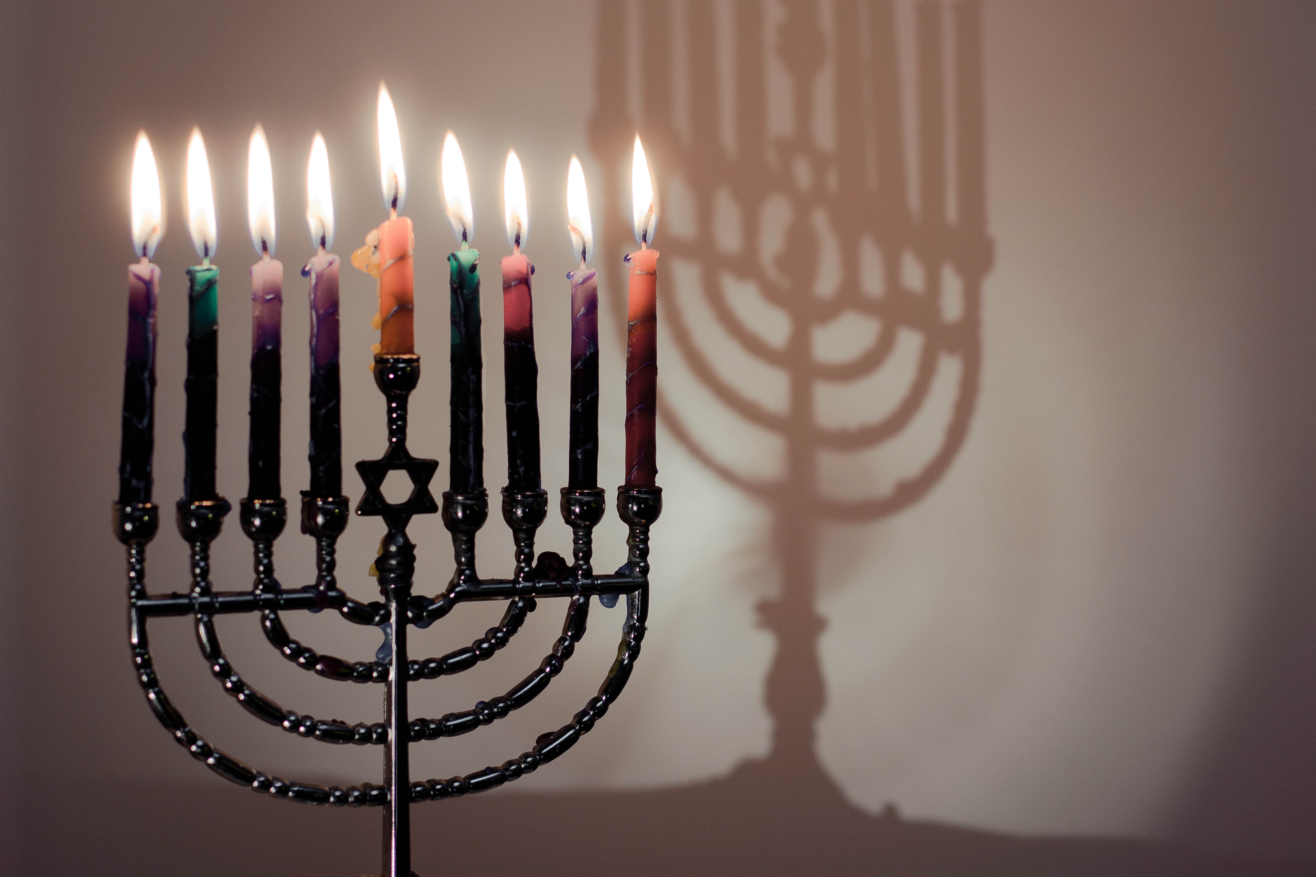 The last night of Chanukah; Menorah with all 8 candles burning. I used a combination of a ceiling facing strobe and a LED flashlight to create the shadow on the wall.